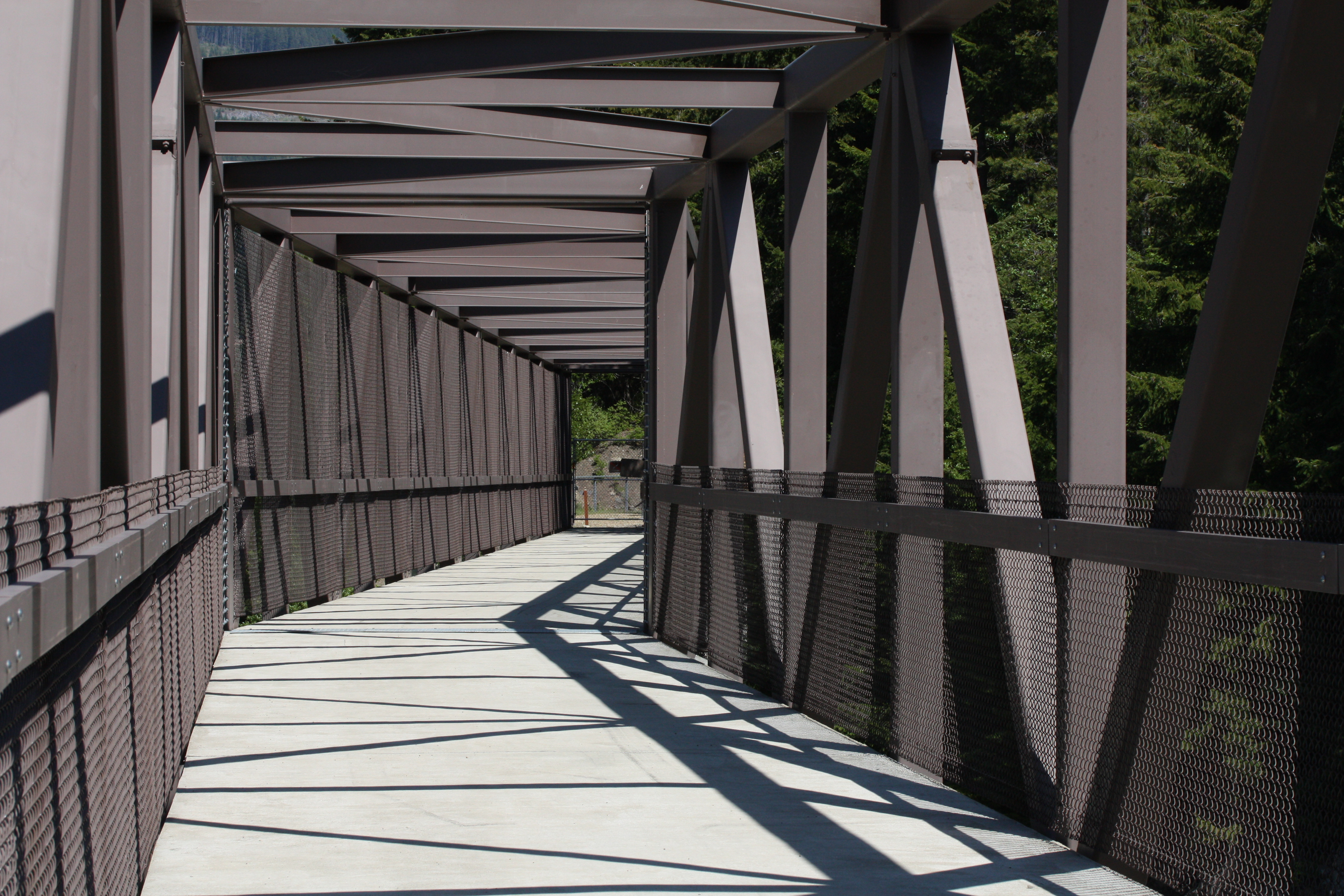 Iron Horse Trail footbridge; formerly the Chicago, Milwaukee, St. Paul and Pacific Railroad